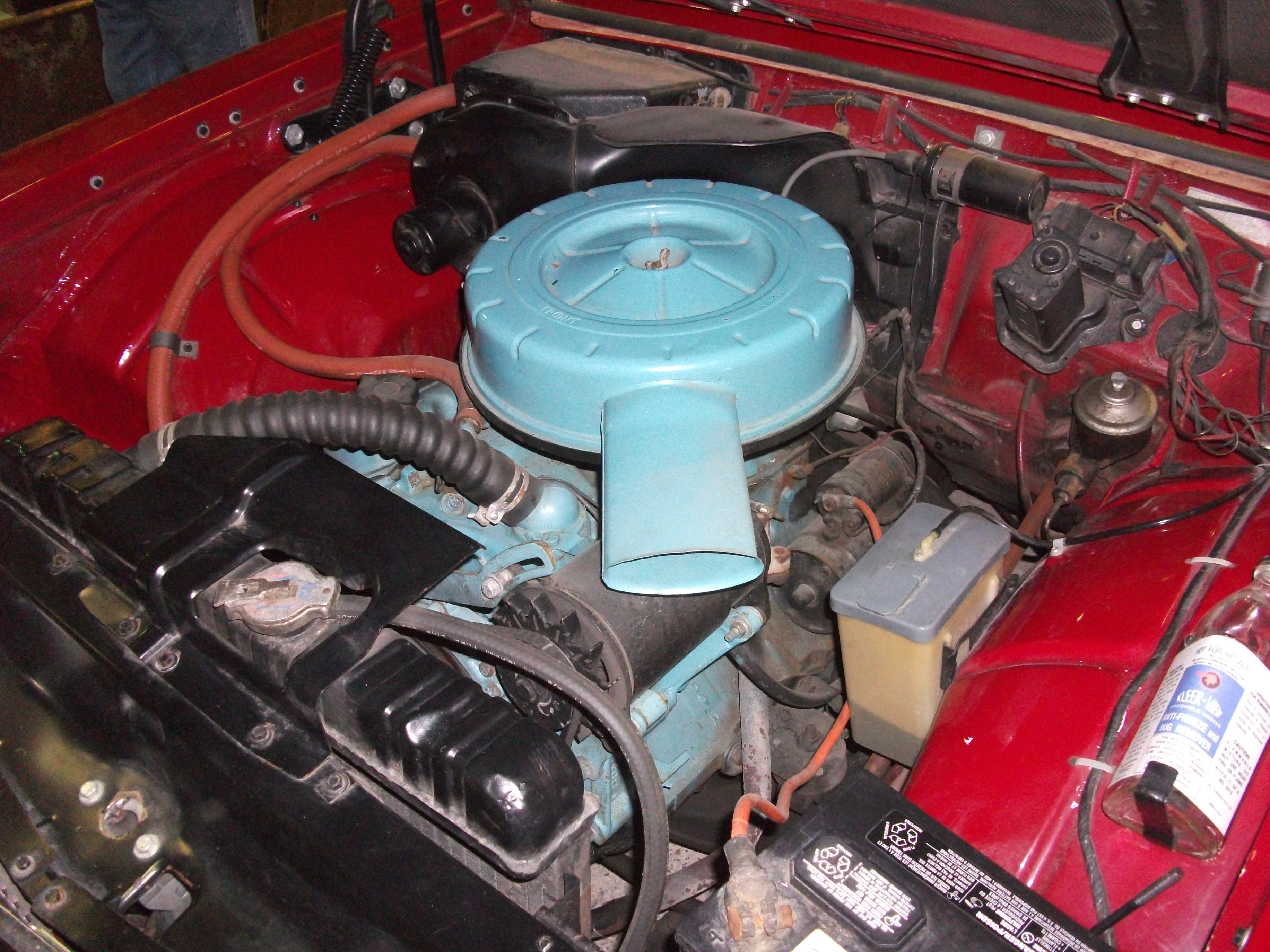 Pontiac LeMans Tempest with a slant four cylinder engine (half a 389cid V8), rope drive and a rear mounted transaxle.